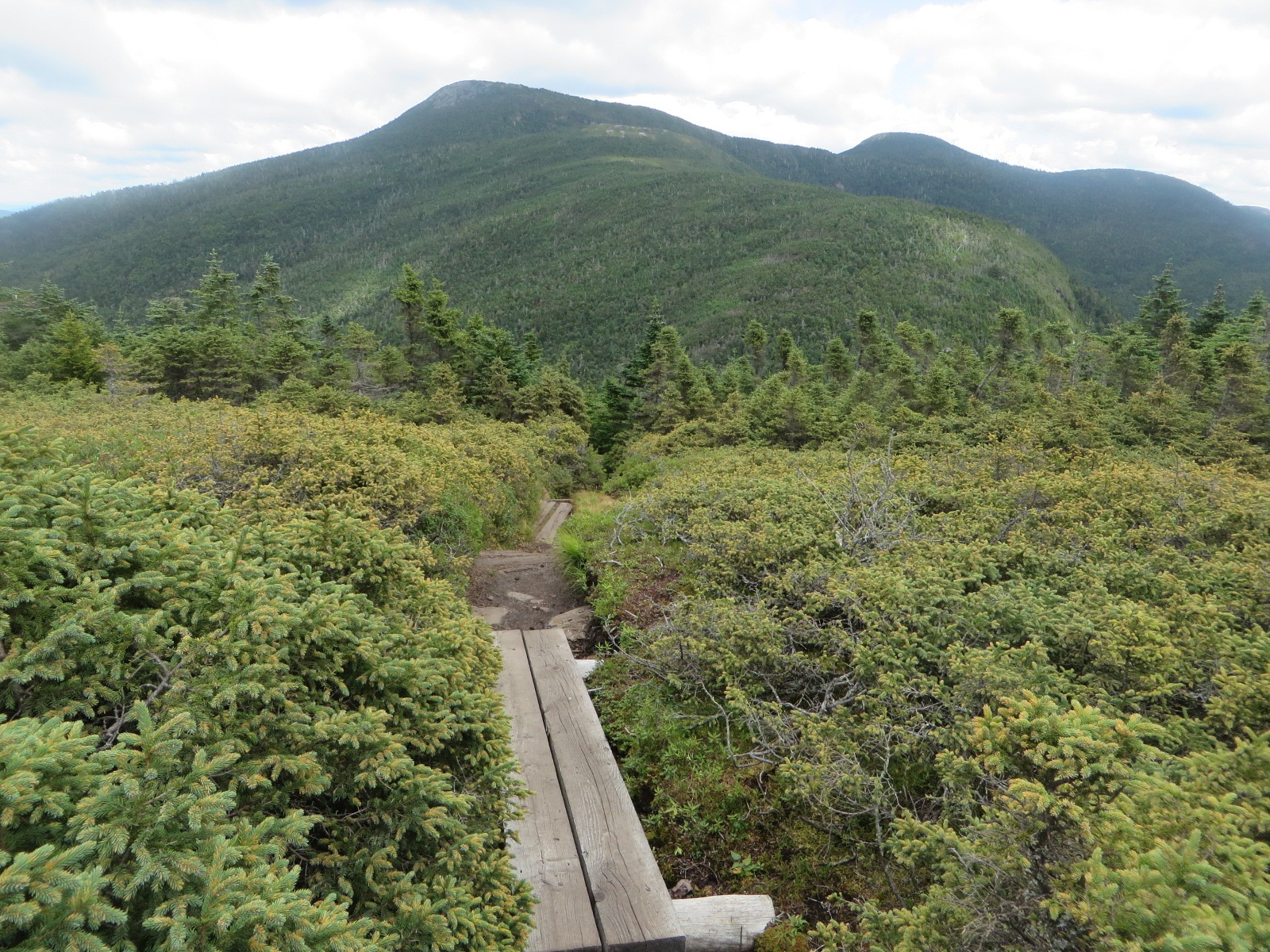 Goose Eye Mountain, Mahoosuc Range, Maine. View from Mahoosuc Trail (Appalachian Trail) on Mount Carlo. August 2015.